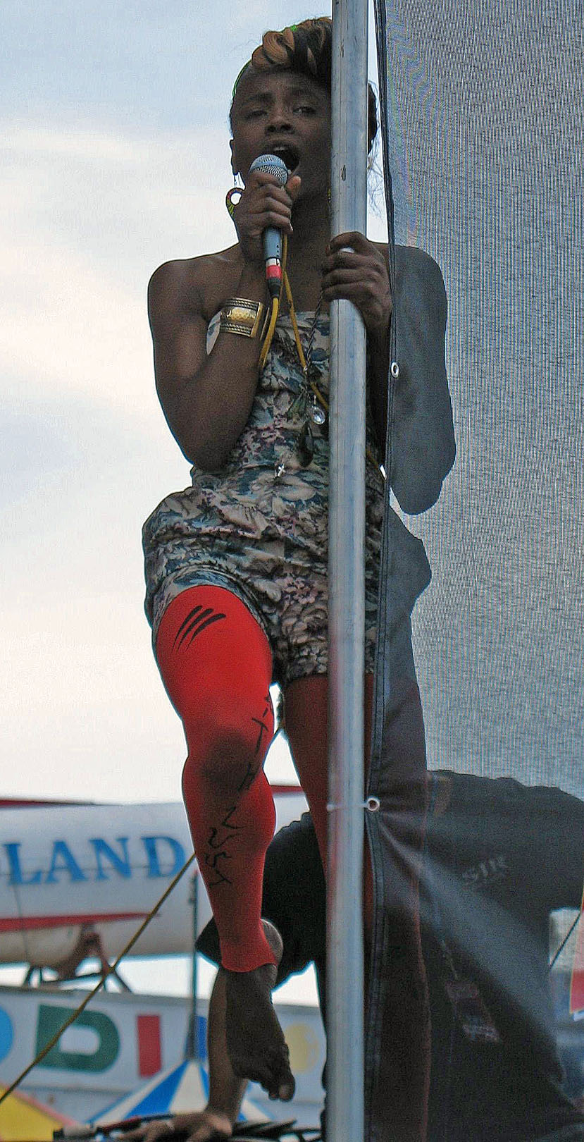 Shingai Shoniwa of Noisettes at Siren Music Festival, Coney Island, NYC (2007)